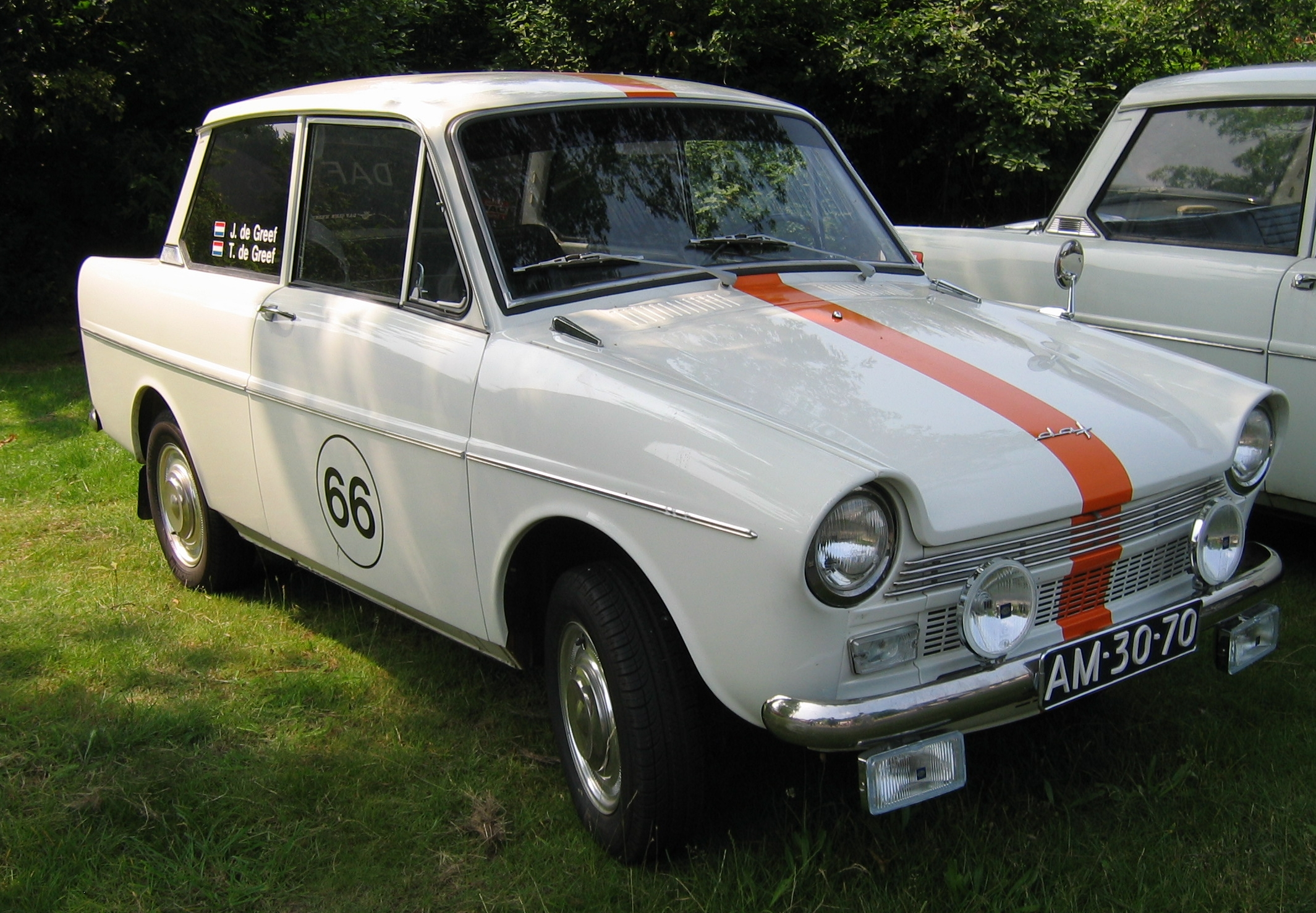 A DAF 32 at the DAF exposition during the Eindhoven Pole Position weekend.